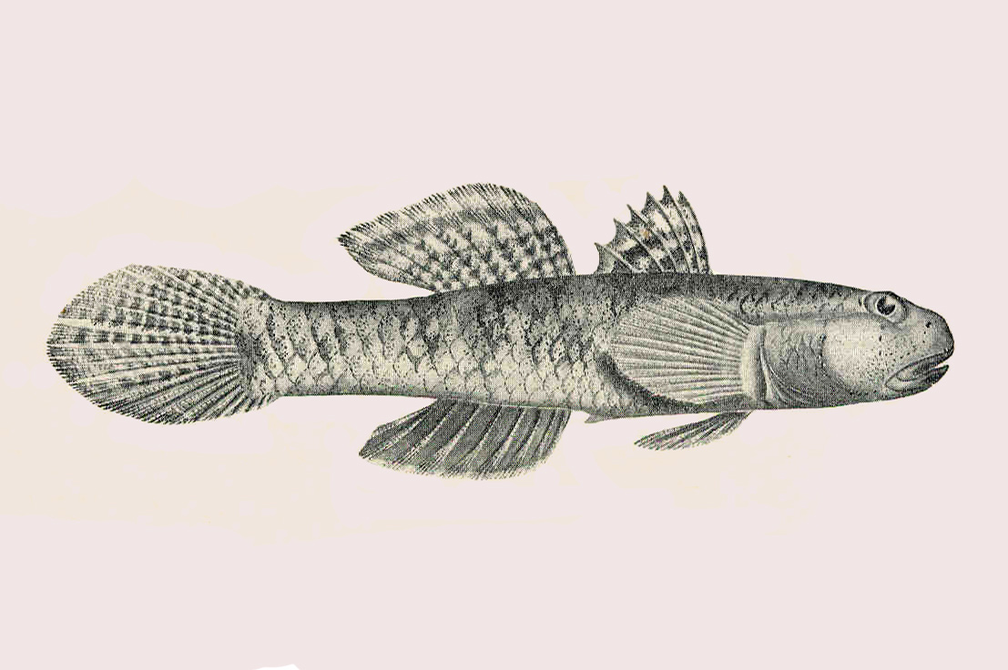 "An illustration of a Bluespot Goby, Pseudogobius olorum, by Edgar Waite, 1921. Source: Waite, E.R. 1921. Illustrated Catalogue of the Fishes of South Australia. Adelaide, Australia : G. Hassell & Son; Fig.235. License: Public Domain"